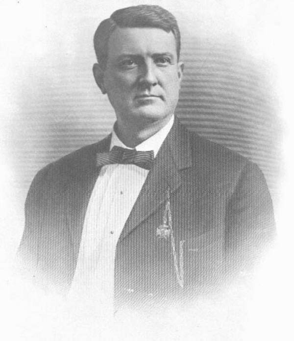 "Born near Jennings, Hamilton County January 8, 1865. Married Annie Beall Wood: June 19, 1899. President of William Naval Stores Company. President of Pensacola State Bank. Vice President of J.P. William Land Company. Served in te House of Reps. as Speaker for the Ordinary and extra sessions of 1911 and 1912."